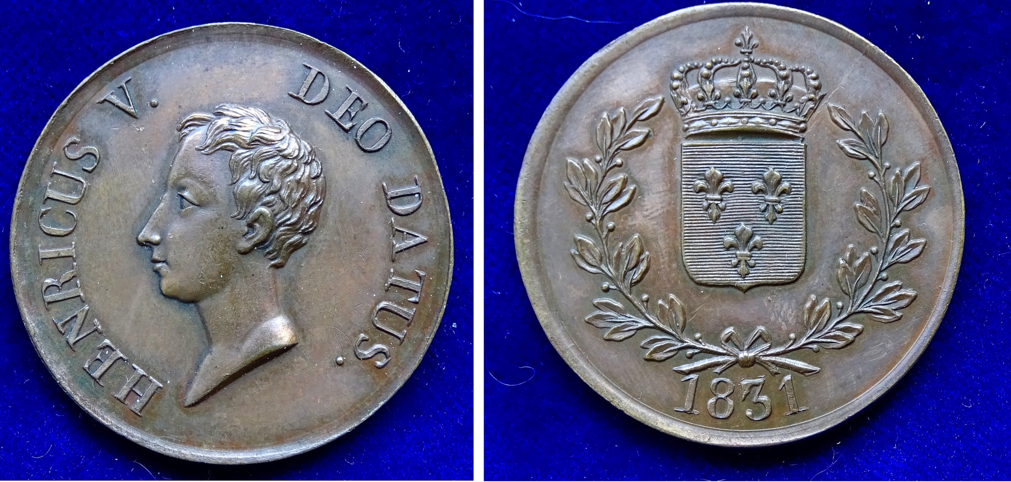 D. = 37 mm. Henri V, Count of Chambord, 1820 Paris - 1883 Frohsdorf, Austria Child head l., around: "HENRICUS V. DEO DATUS." / Crowned French shield in wreath, date below. Gadoury 346; KM X 33, previous KM PT 33 Condition: UNCIRCULATED